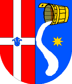 Municipal coat of arms of Míškovice village, Kroměříž District, Czech Republic.